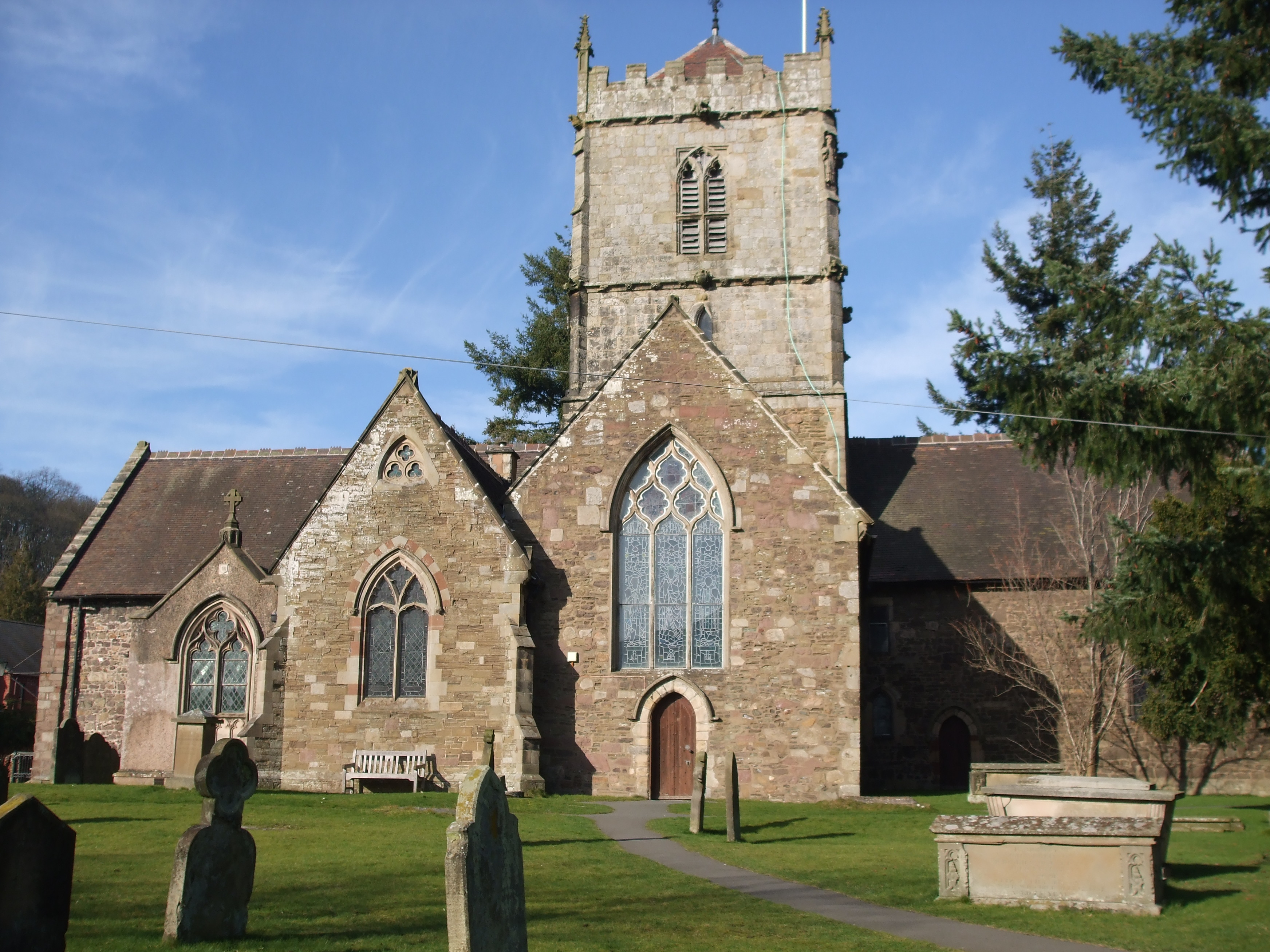 Parish church at Church Stretton